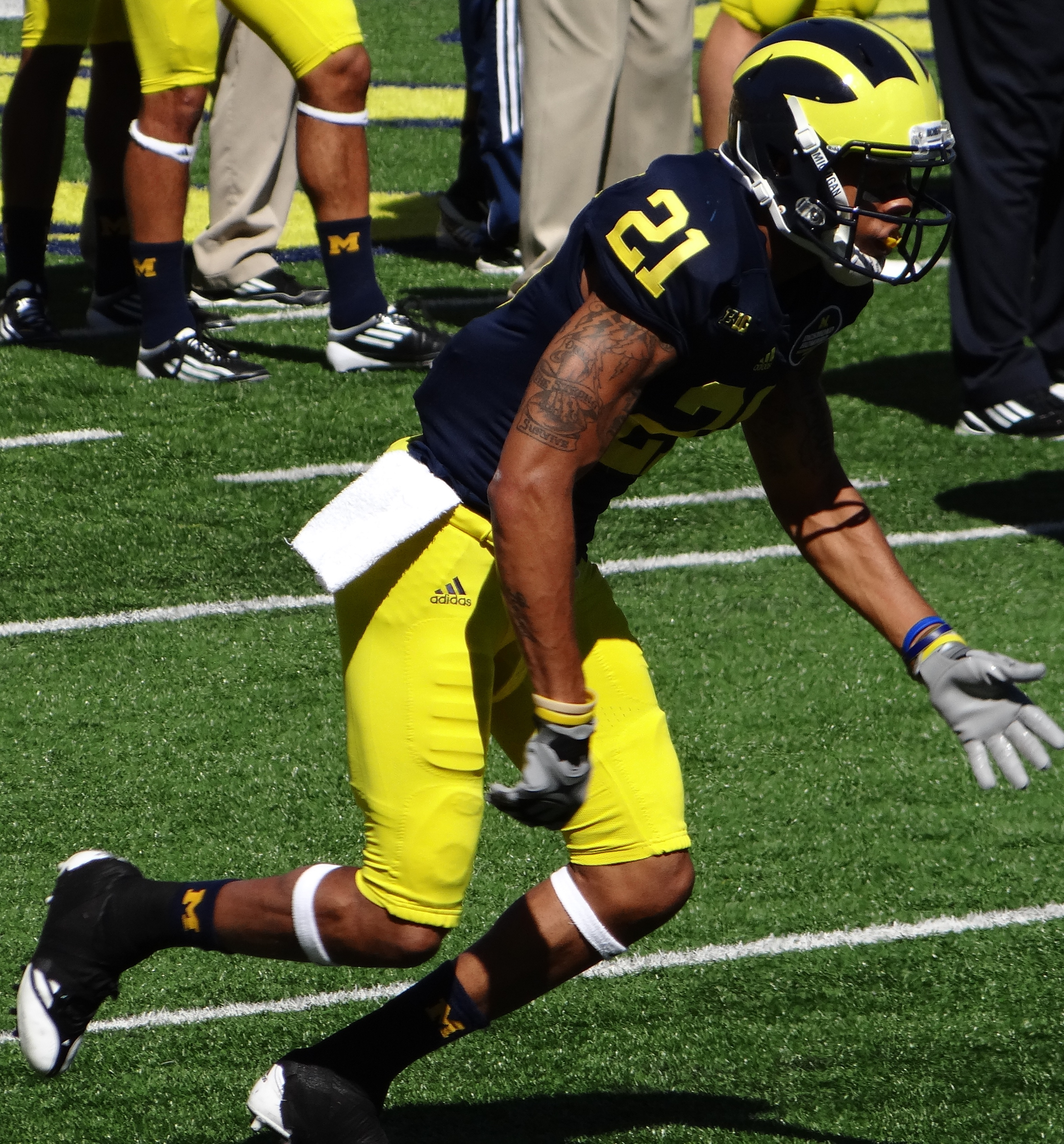 Michigan wide receiver Roy Roundtree